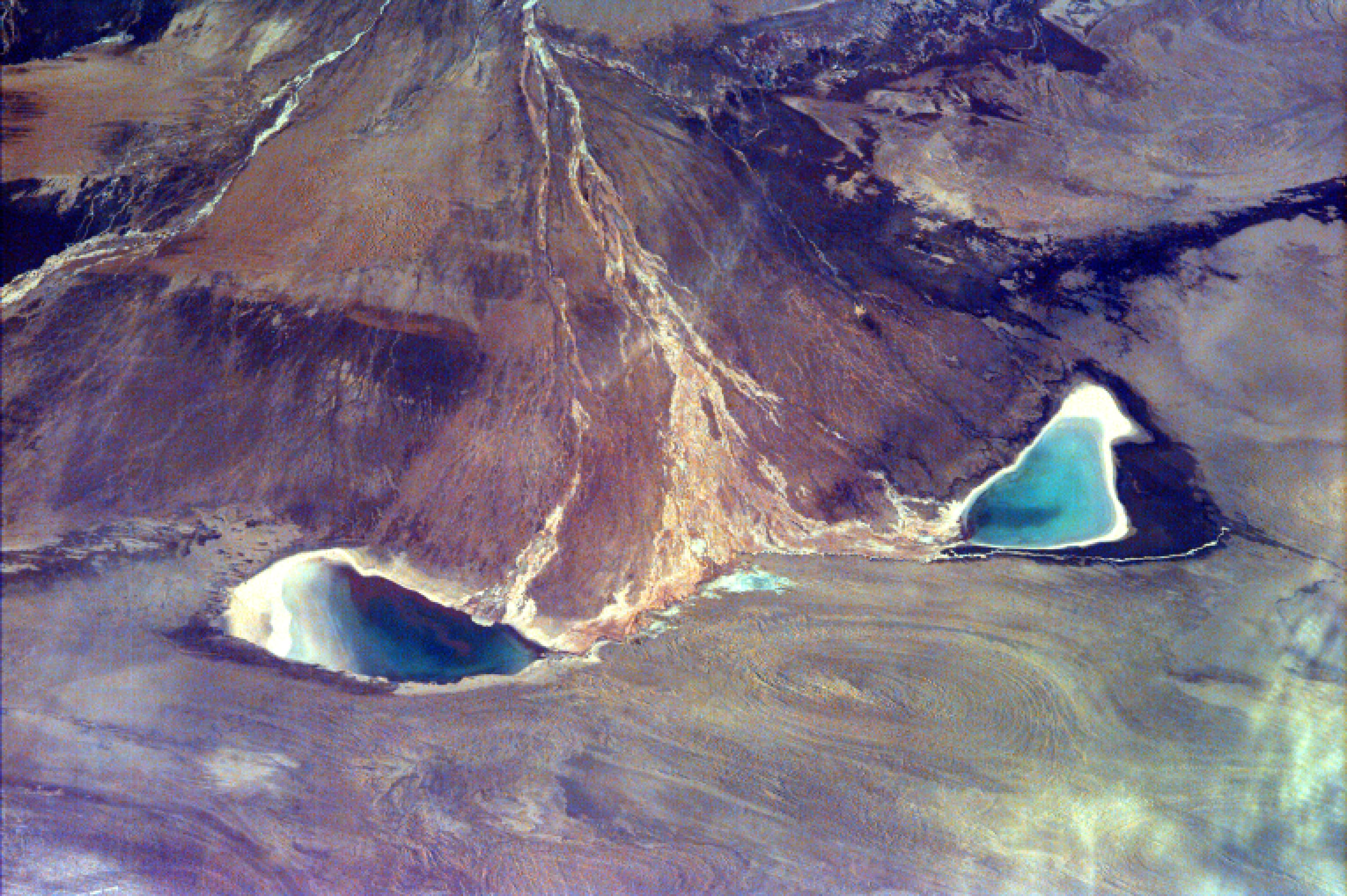 Alluvial fan in Tsinghai, taken from the Space Shuttle on January 22, 1997.